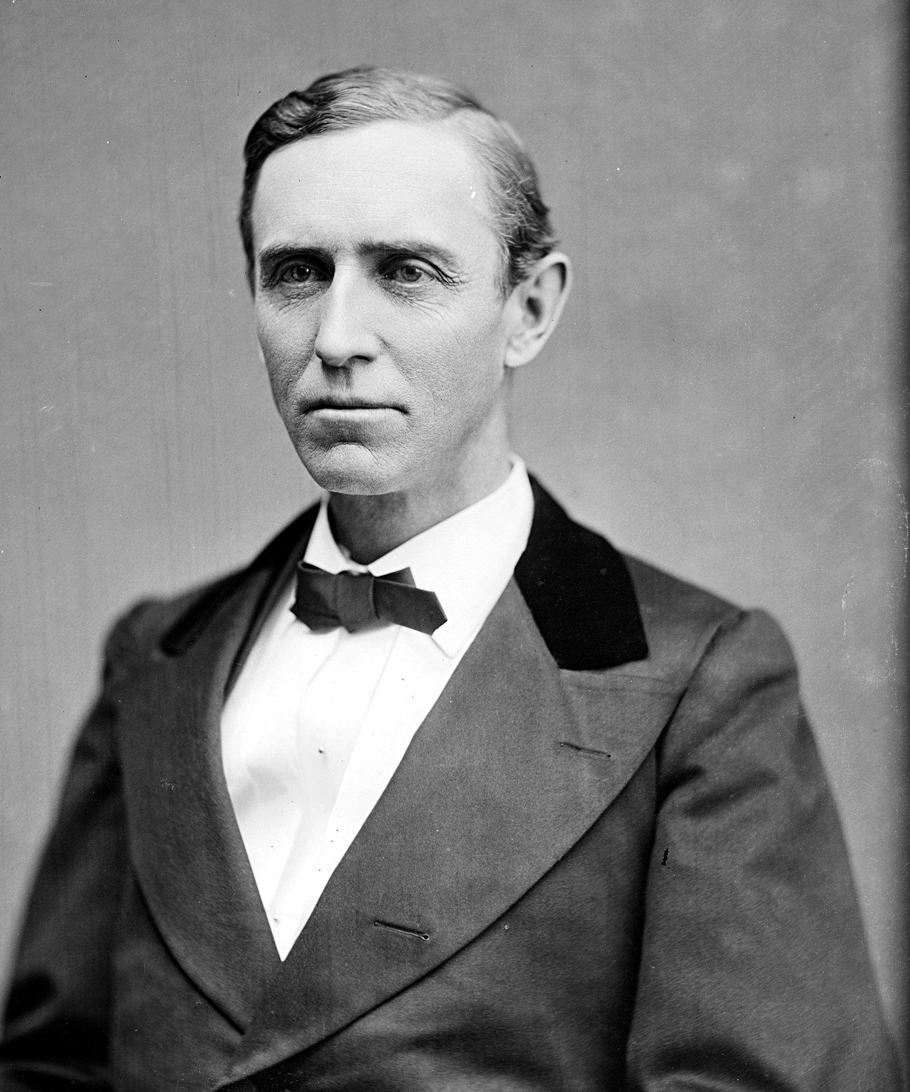 John B. Hawley, US Representative from Illinois